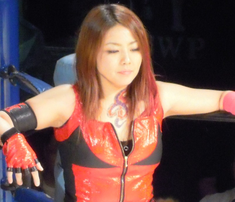 Japanese professional wrestler,Shuri Okuda. Aug 29 2010, JWP Tokyo Kinema Club.